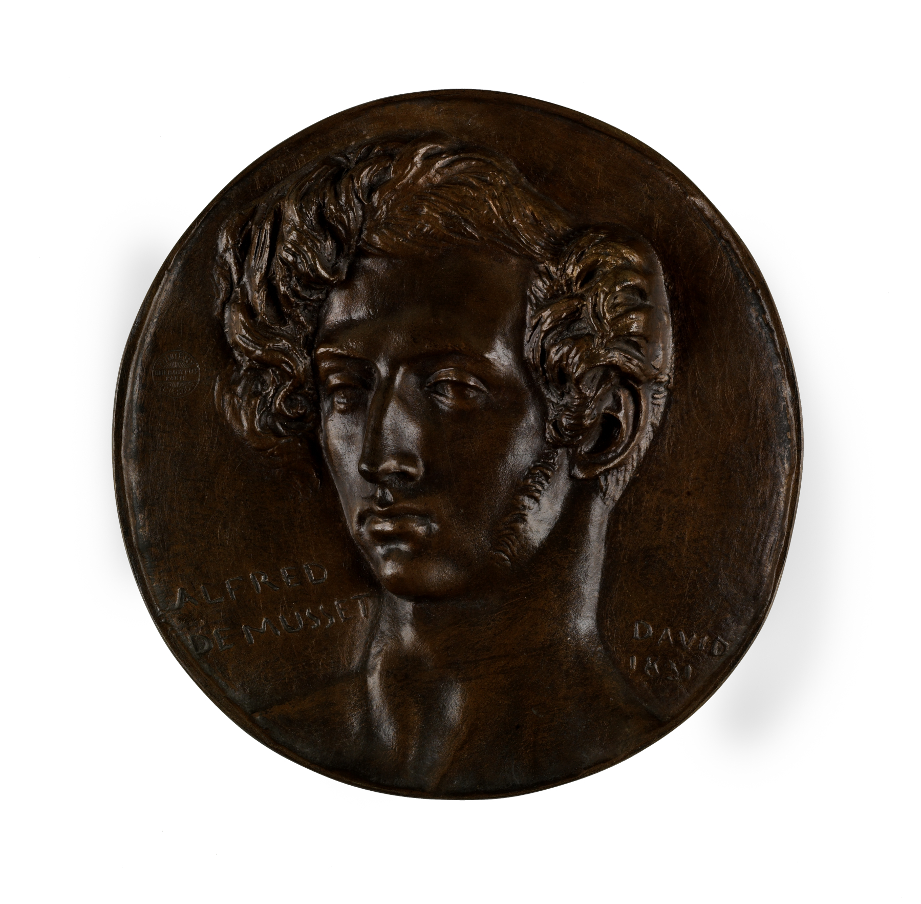 Louis-Charles-Alfred de Musset (b. 1810), French poet and playwright, published his first volume of poetry in 1829, when he was but twenty and quickly gained prominence. Musset penned many short stories and plays and was received into the Académie Française in 1852.